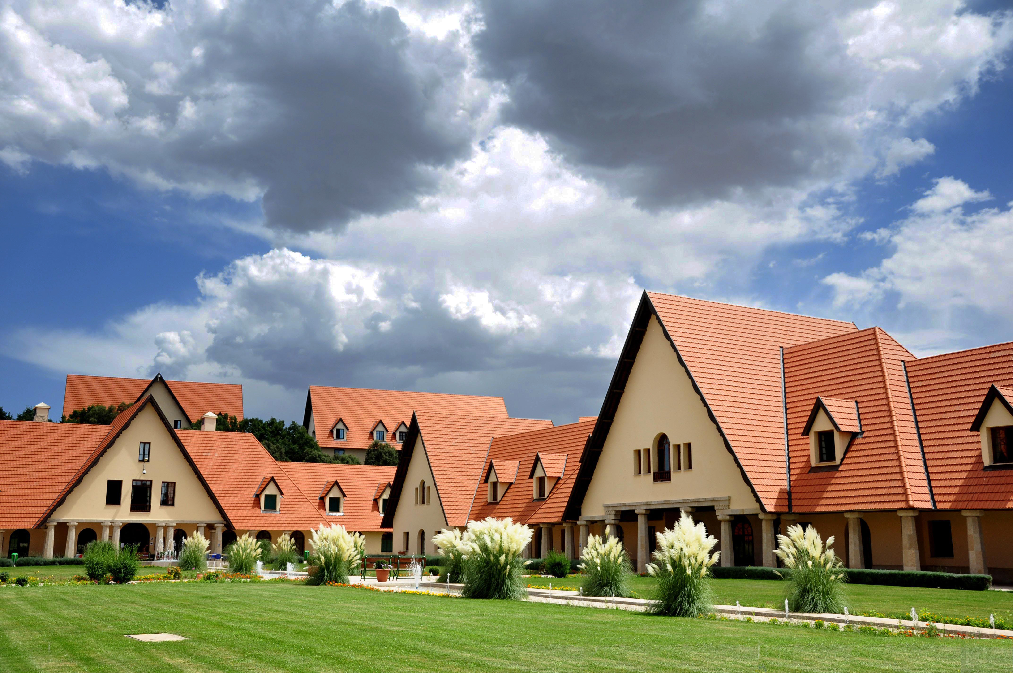 [© Amina Lahbabi]